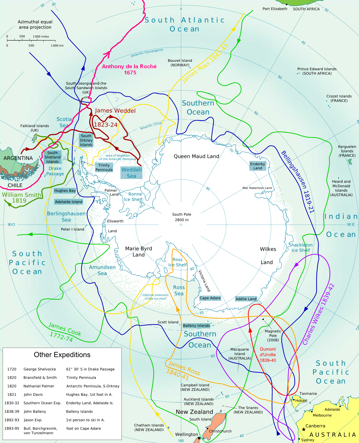 Map of the expeditions in Antarctica south of 60° S latitude before the Heroic Age of Antarctic Exploration, with the route of Anthony de la Roché's 1675 voyage added.